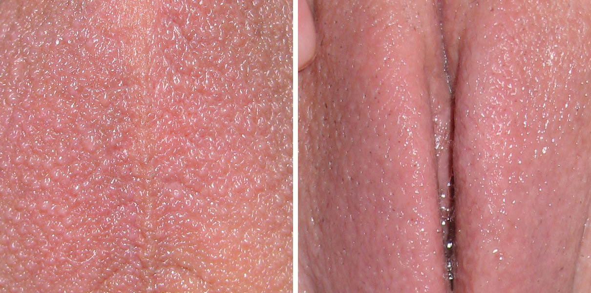 Sample images of male's scrotal skin and female's labial skin. The image areas are approximately 4x4 cm or 1.5x1.5 inches.